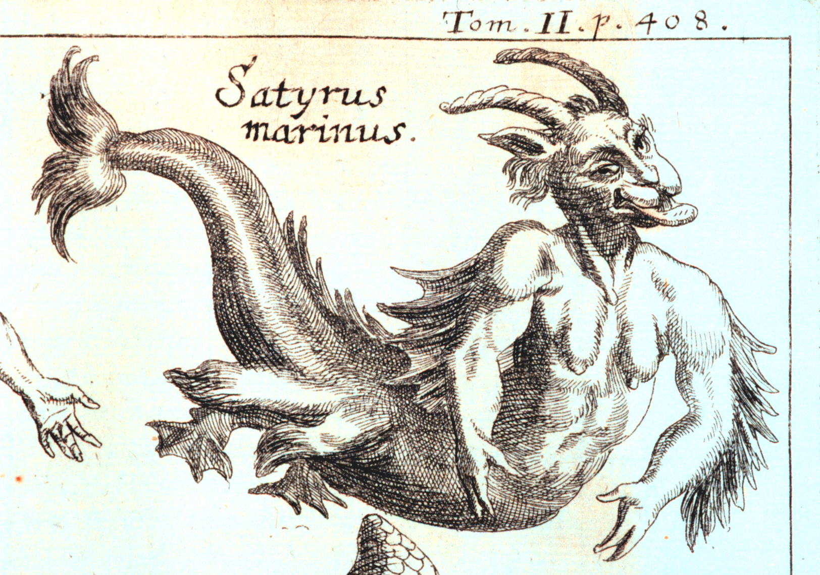 Mythical Satyrus marinus - a sea-going merman satyr. Part man, part goat, part fish. In: "Specula physico-mathematico-historica ....", NOAA Library Call Number Q155 .Z33 Image ID: libr0079, Treasures of the NOAA Library Collection